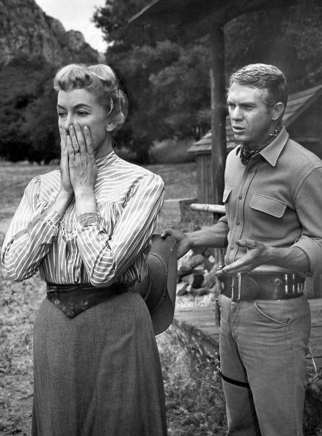 Photo of Steve McQueen as Josh Randall and Virginia Gregg from an episode of the television program Wanted:Dead or Alive.